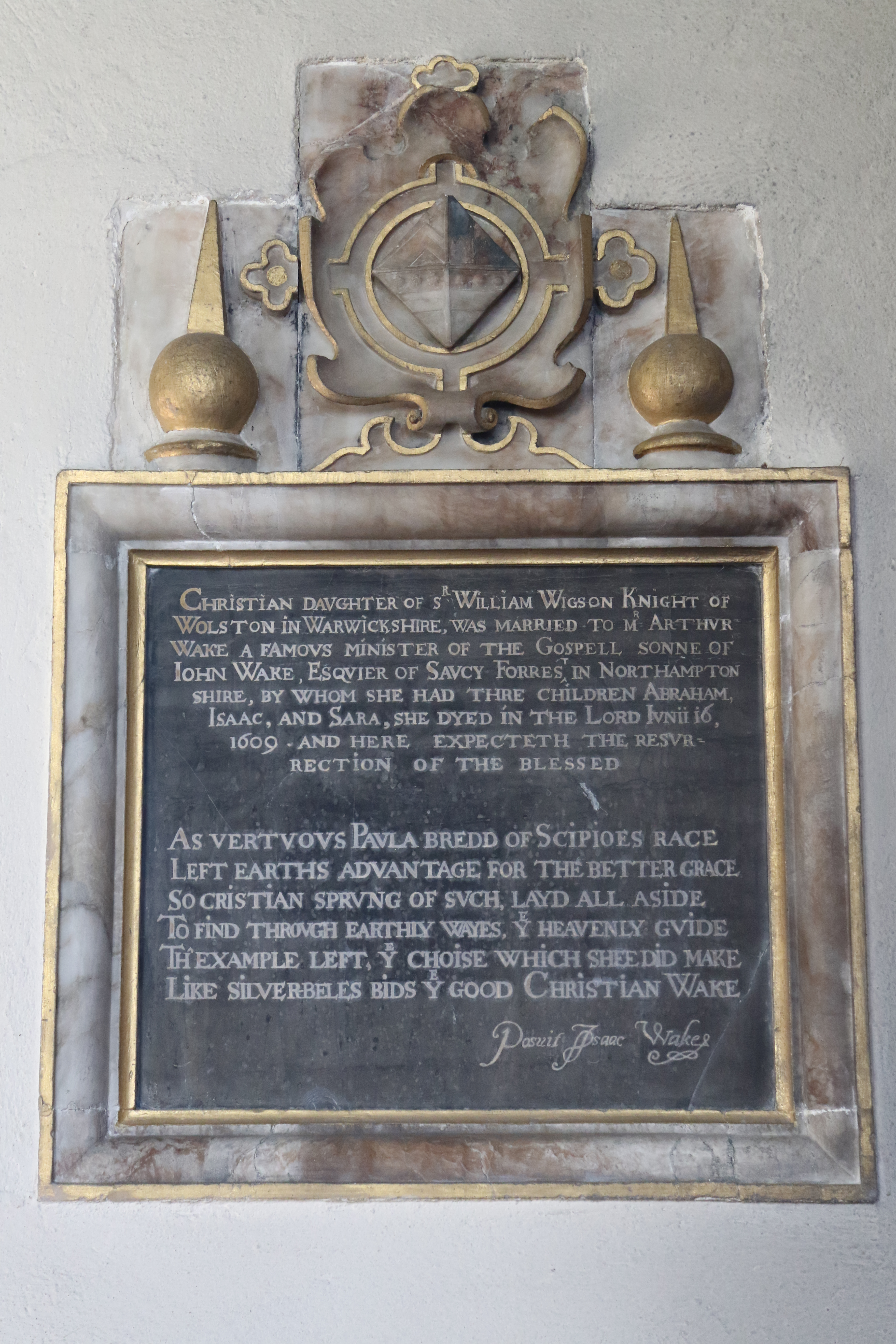 Christian daughter of Sir William Wigson Knight of Wolston in Warwickshire, was married to Mr Arthur Wake, a famous minister of the Gospell. Sonne of John Wake, Esquire of Savcy Forres in Northamptonshire, by whom she had thre children Abraham, Isaac, and Sara, she died in the Lord Junii 16 1609, and here expecteth the resurrection of the blessed. As vertuous Paula bredd of scipioes race Left earths advantage for the better grace So cristian sprung of such layd all aside To find through earthly wayes Ye heavenly guide Th Example left Ye choise which shee did make Like silver beles bids Ye good Christian Wake. Posuit Isaac Wakes